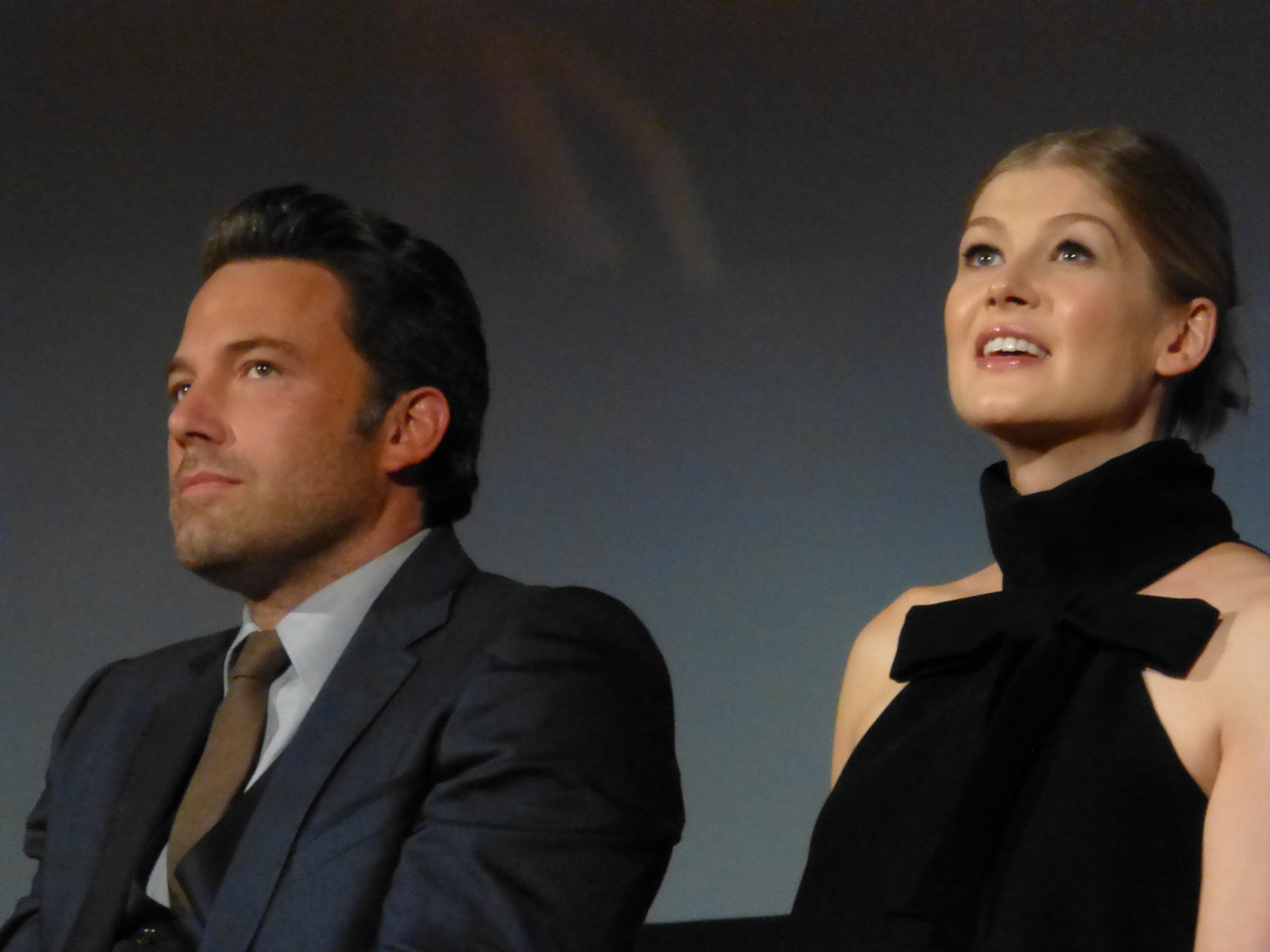 Gone Girl Premiere at the 52nd New York Film Festival, October 2014.